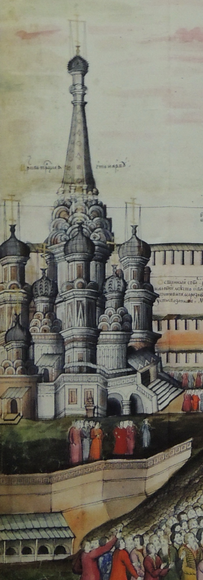 Book of election of Michael I of Russia